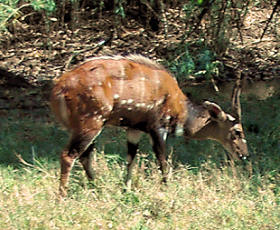 Bushbuck at Mundawanga, Lusaka - Zambia. For taxobox purposes